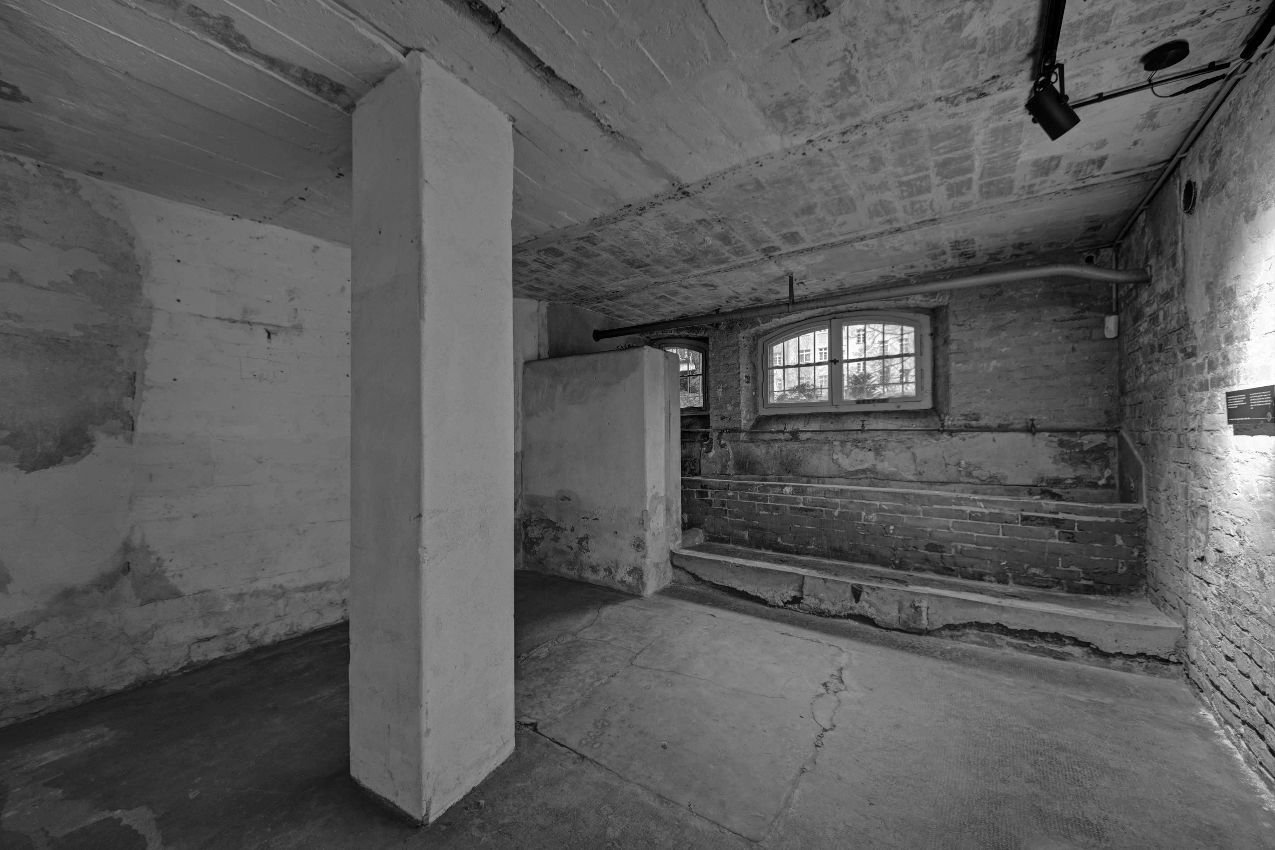 Lavatory of the former SA Prison Papestraße (Werner-Voß-Damm), Berlin-Tempelhof